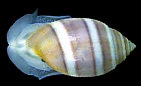 Photo of dorsal view of a live Acteon tornatilis.